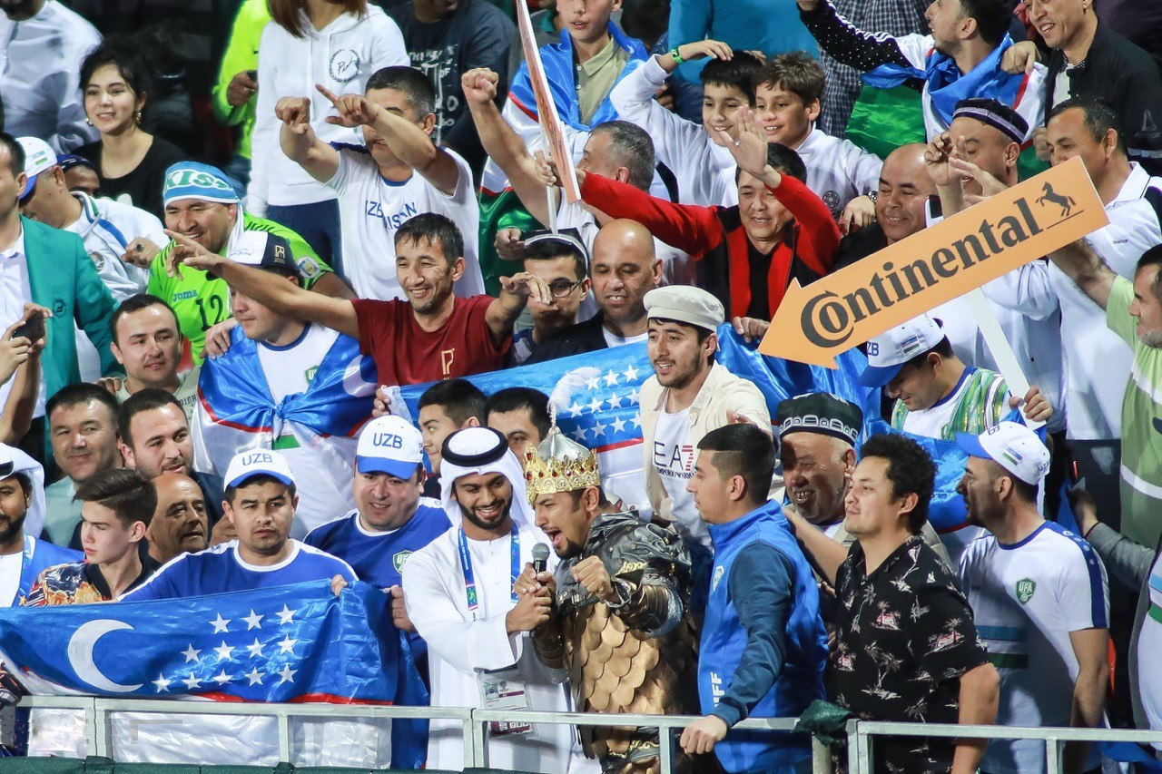 Turkmenistan & Uzbekistan Group F match, 2019 AFC Asian Cup